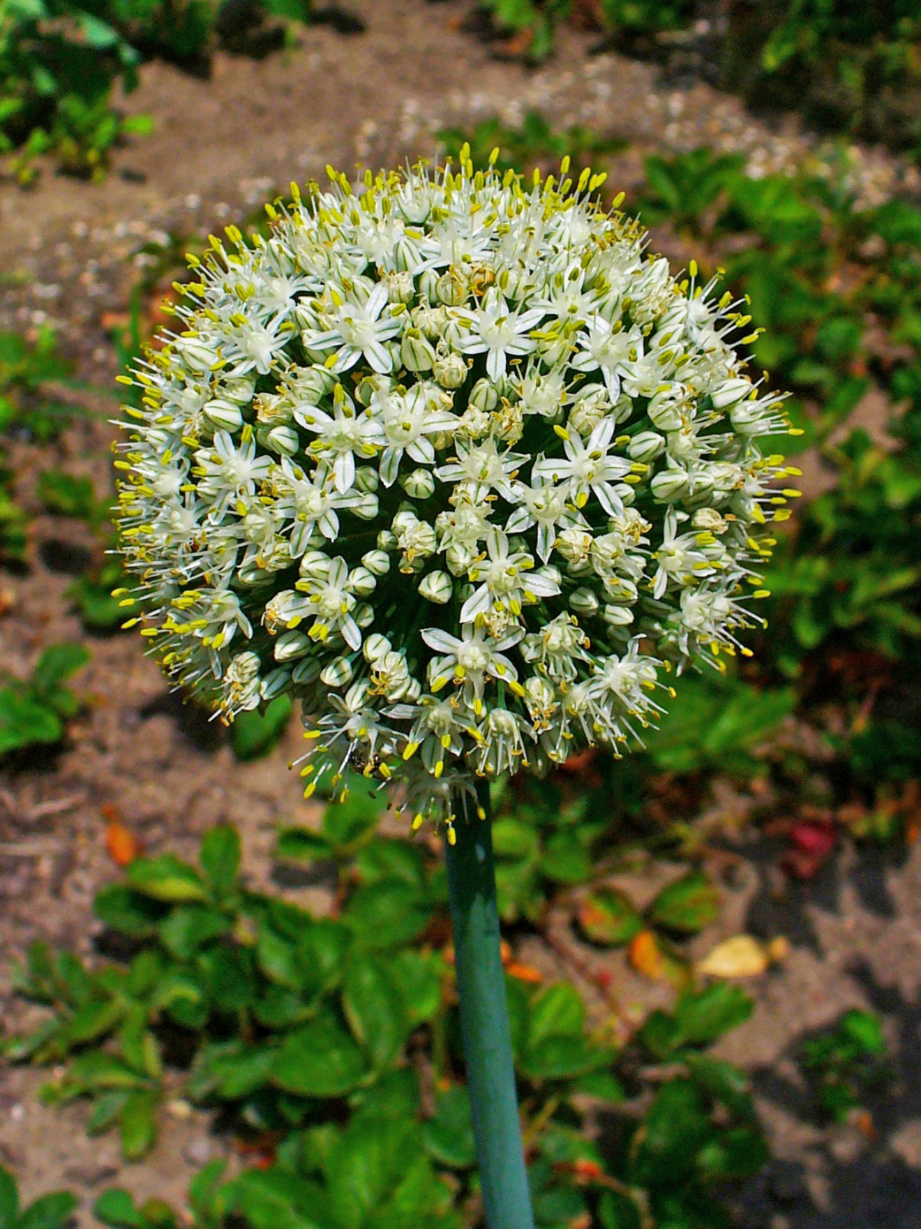 Allium cepa, Alliaceae, Garden Onion, inflorescence. Karlsruhe, Germany. The fresh bulbs are used in homeopathy as remedy: Allium cepa (All-c.)